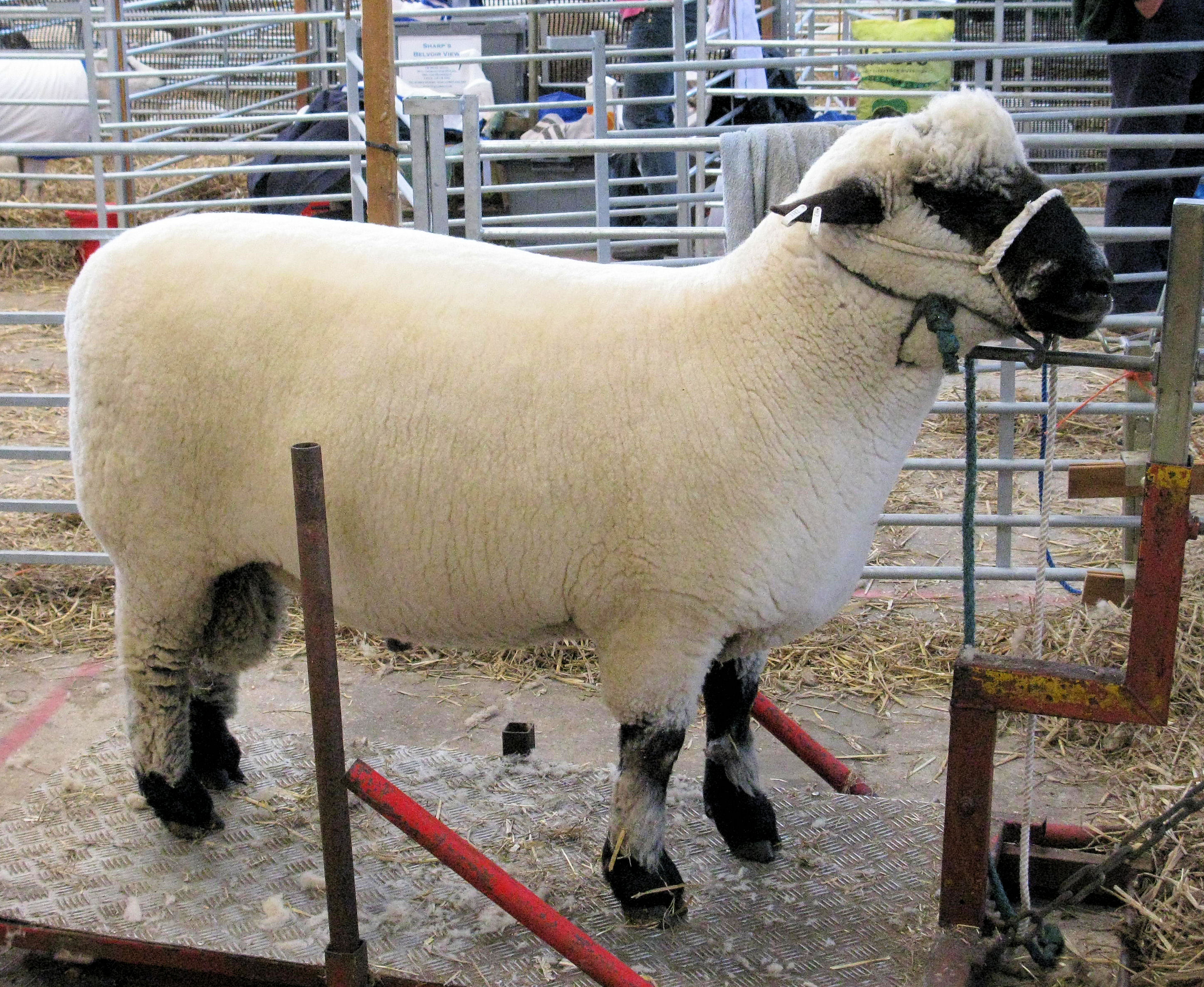 Hampshire Down sheep being prepared for showing